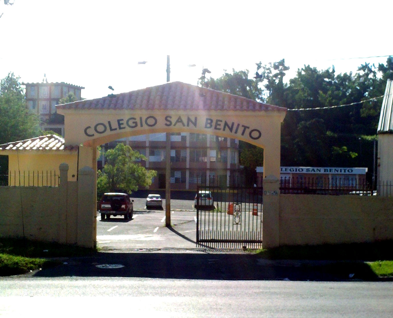 School Entrance